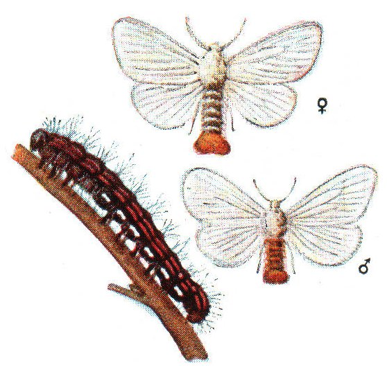 Euproctis chrysorrhoea